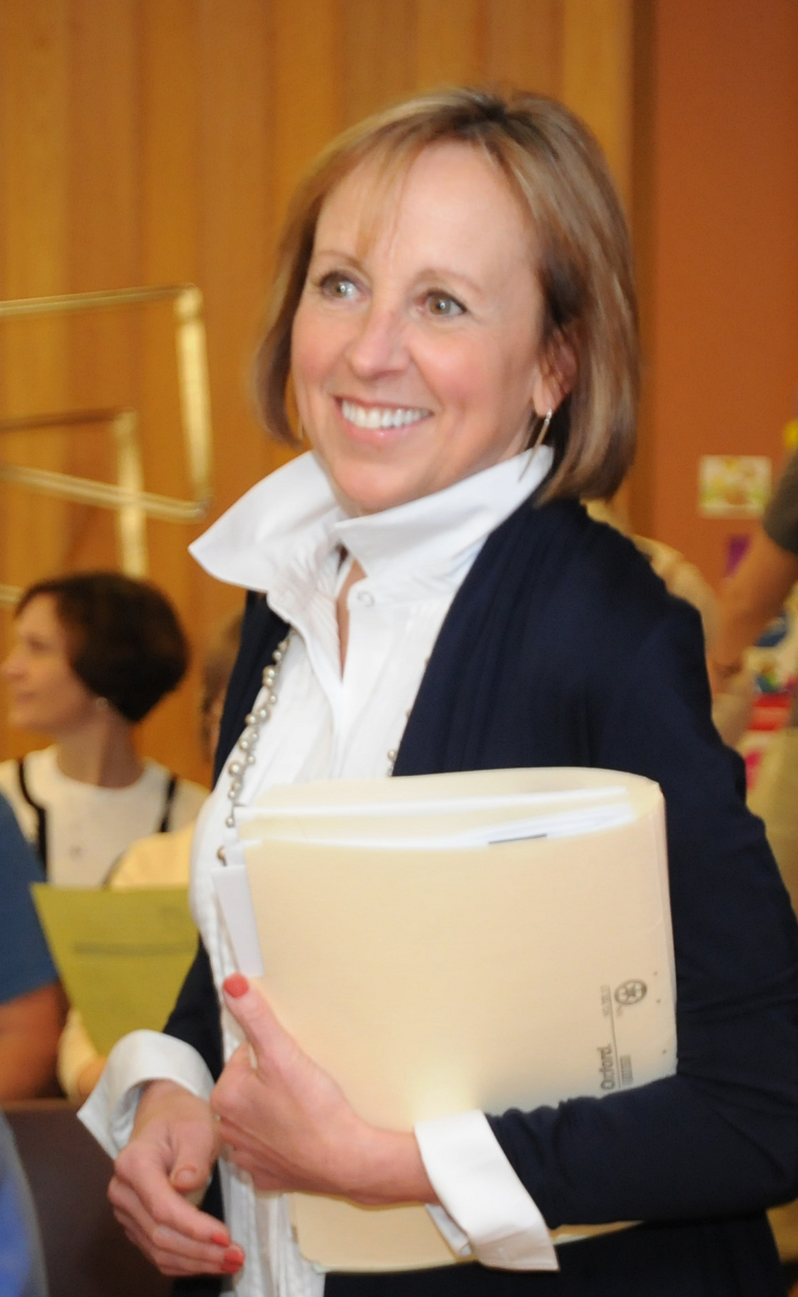 Wisconsin State Assemblywoman Sandy Pasch in 2011. Photo courtesy of marctasman, via Flickr. This file has been extracted from another file: Sandy Pasch 2011.jpg